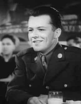 Cropped screenshot of Lon McCallister from the film Stage Door Canteen.